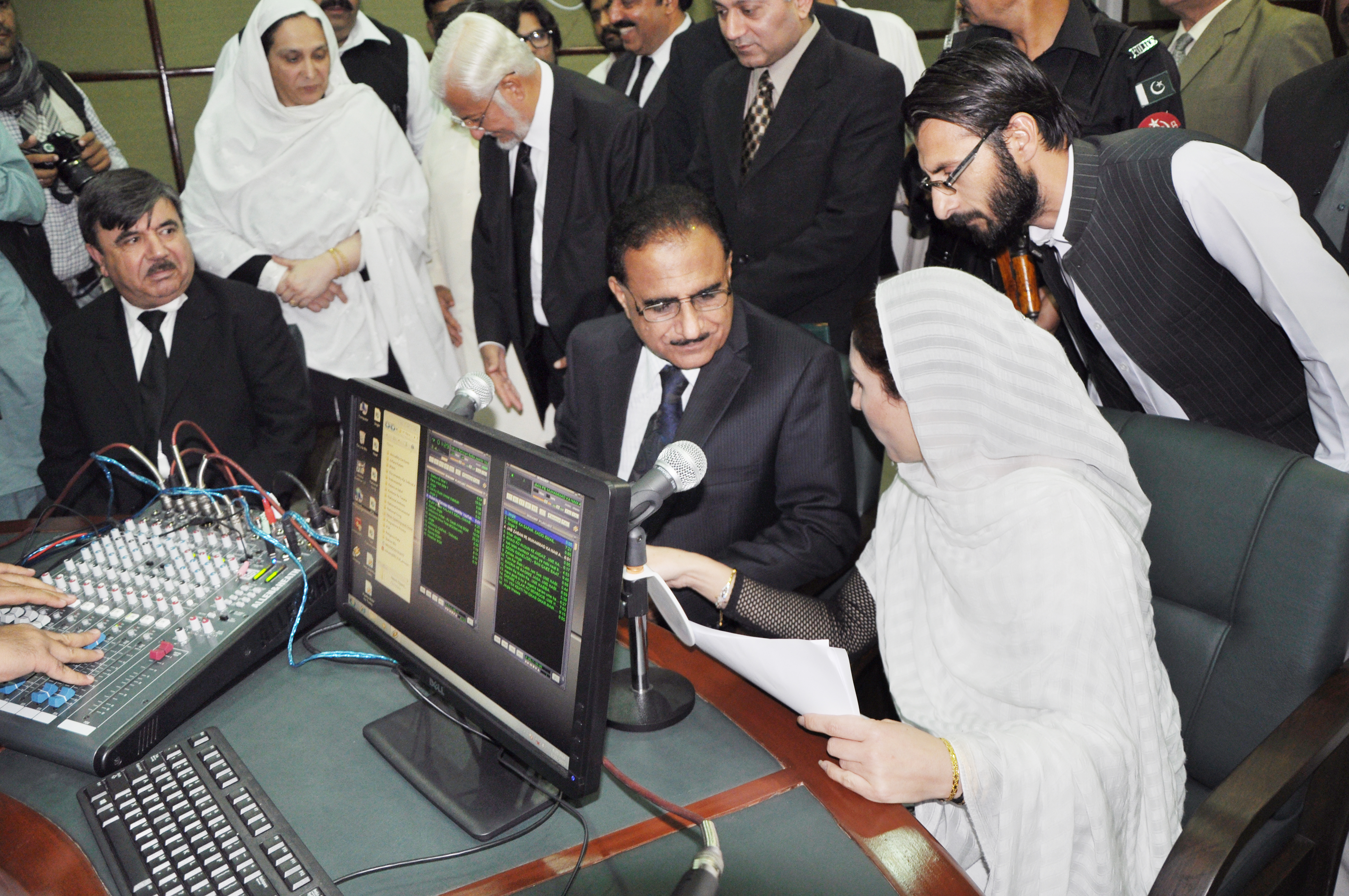 Chief Justice Peshawar High Court Mr. Justice Dost Muhammad Khan inaugurating Radio-Meezan-FM966-KP-Judicial-Academy-Peshawar